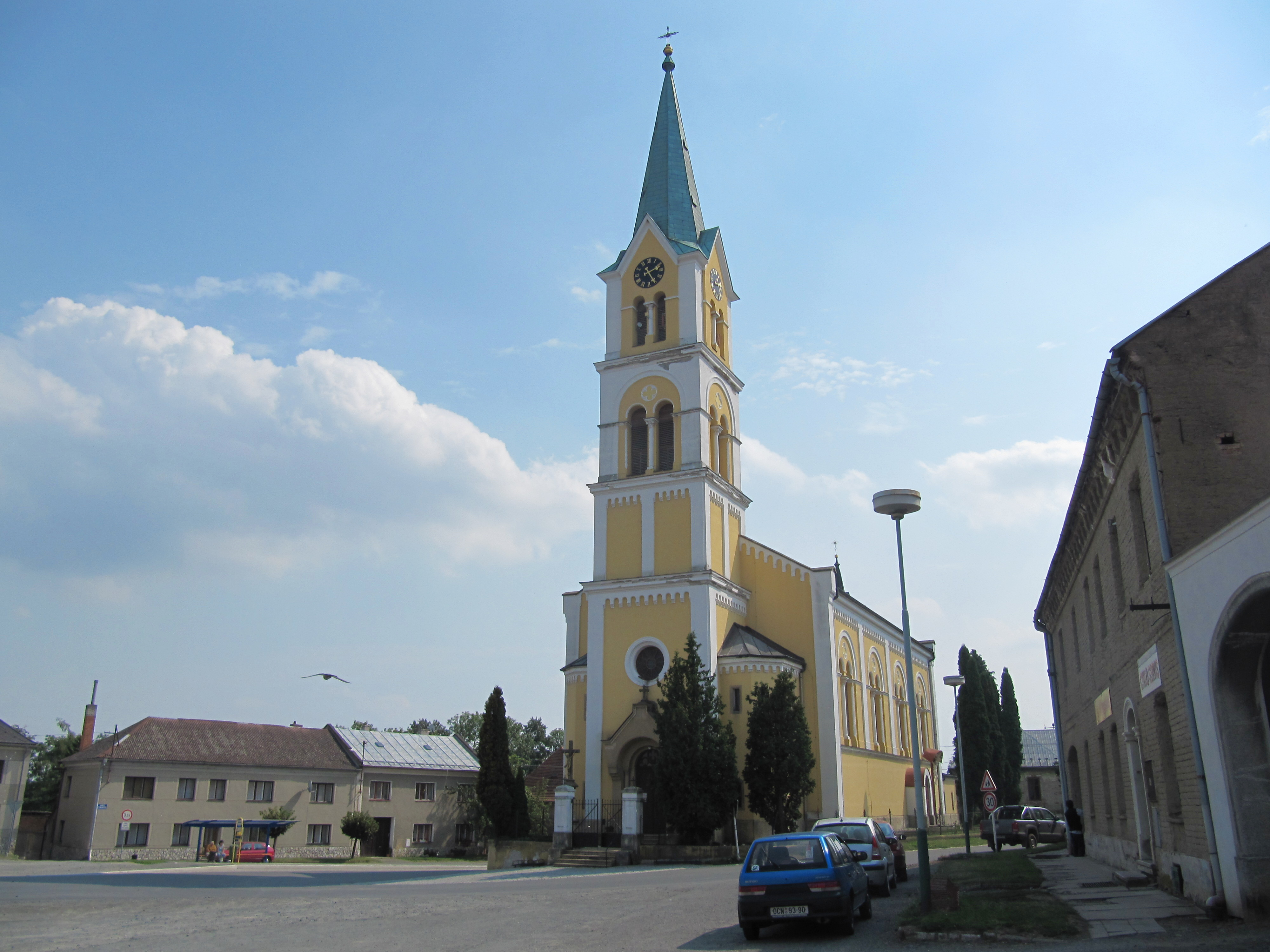 Náměšť na Hané in Olomouc District, Czech Republic. Church of the Saint Cunigunde, originally from the 17th century. After demolition rebuilt in the years 1871 to 1873 in neoromanesque style.